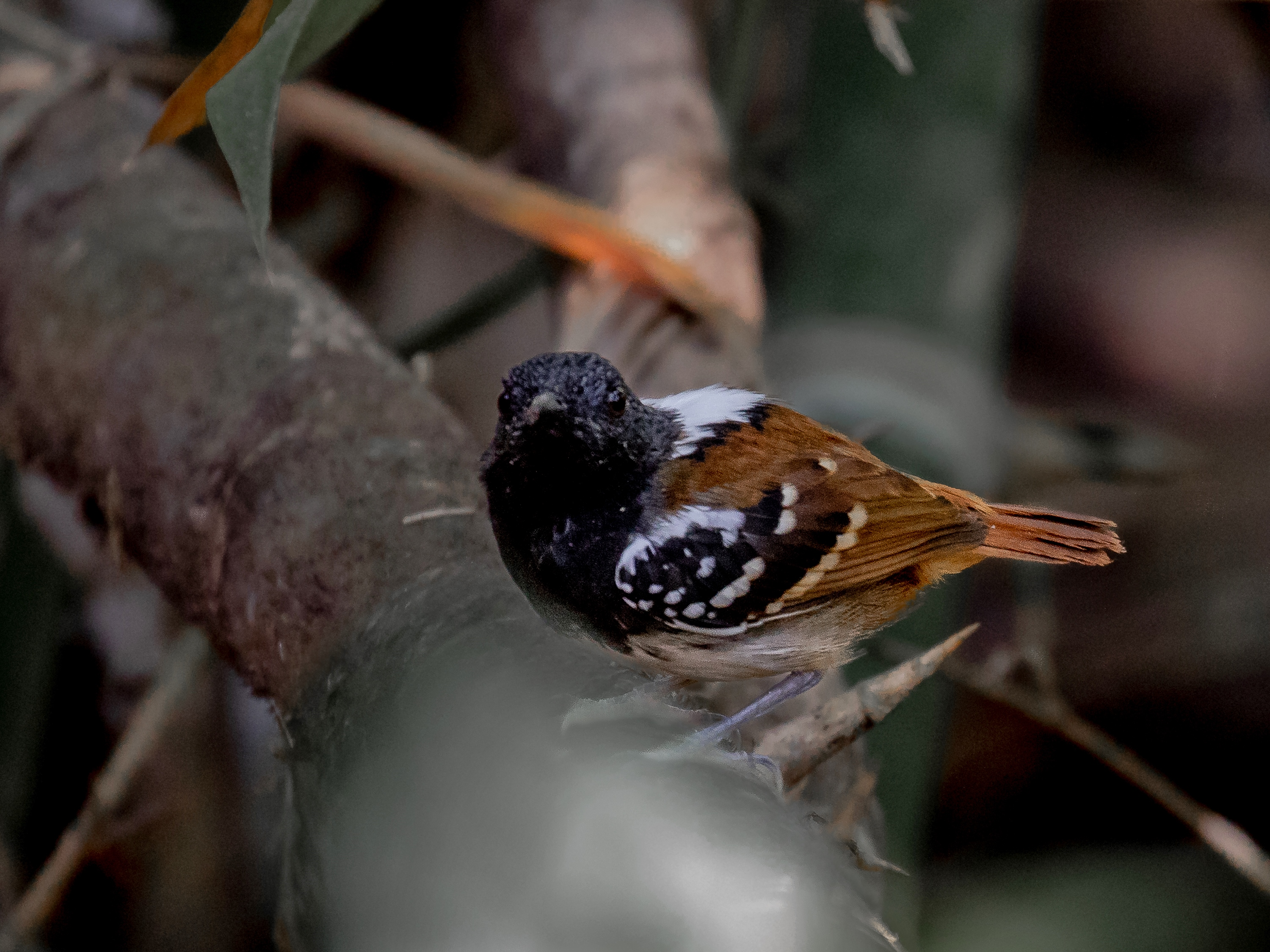 Southern Chestnut-tailed Antbird; Rio Branco, Acre